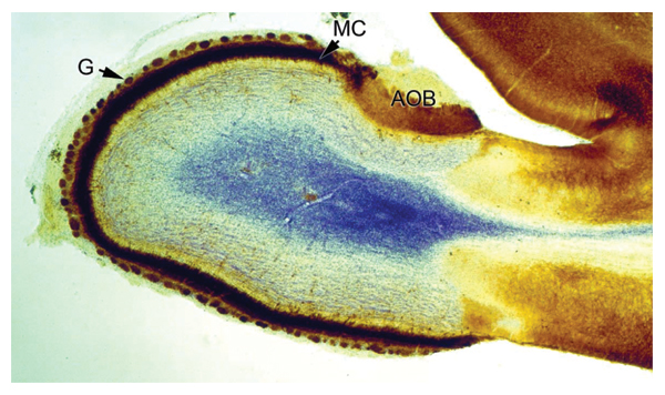 Figure legend from article (CC-by): "Section through the olfactory bulb of a 16 days old rat brain. The tissue has been fixed and immunoperoxidase-stained with antibodies against GABAA-receptor_1-subunit (brown) as described elsewhere [157]. Nissl staining was performed to counter stain (blue). Clearly visible are the accessory olfactory bulb (AOB), to which chemosensory neurons from the vomeronasal organ project, the intensely labelled layer of mitral cells (MC), and the glomeruli (G), which represent the first relay station for sensory information transmitted from the nose to the brain (Jacques Paysan, unpublished)."